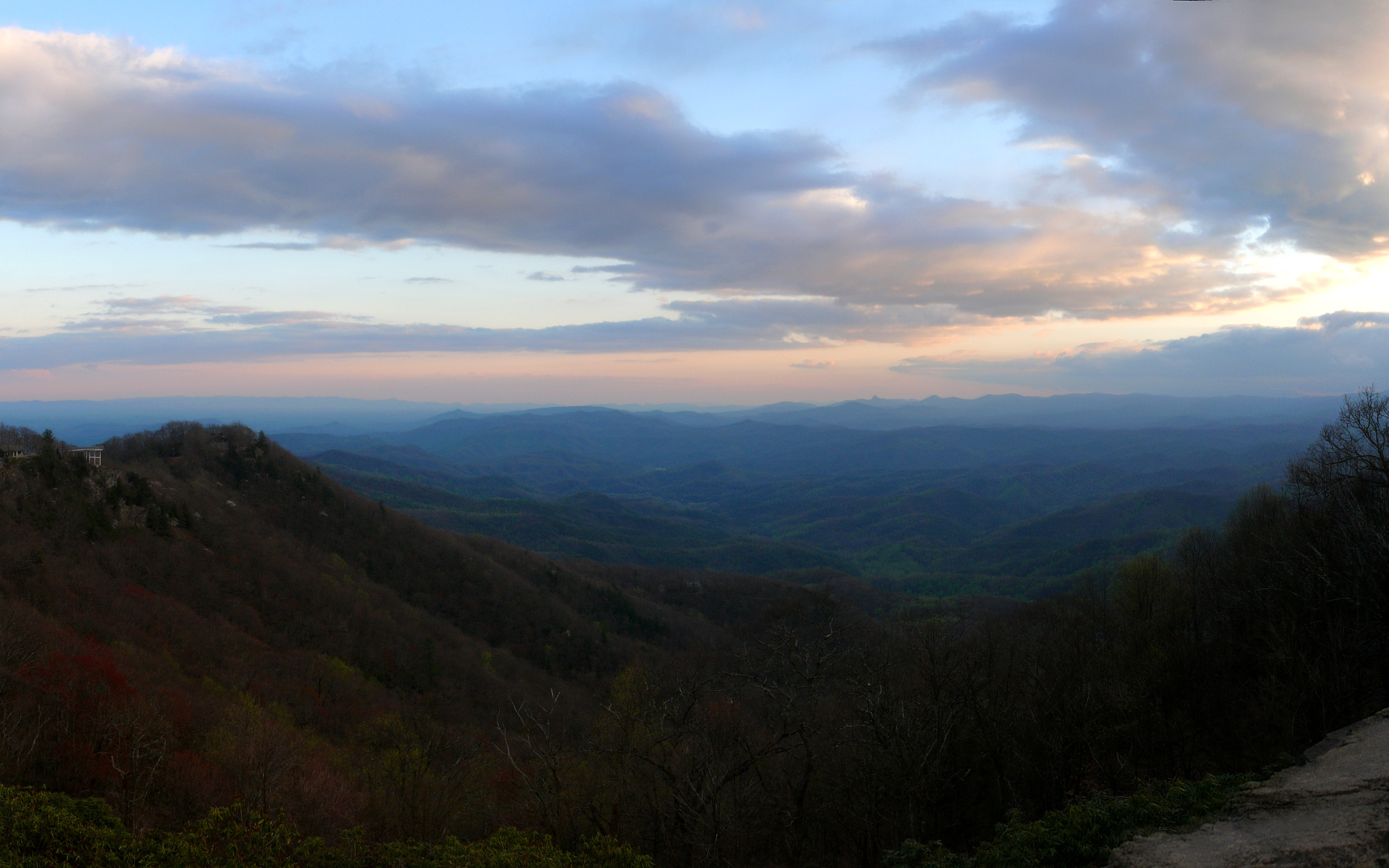 Near sunset, looking southeast over the foothills region from the crest of the Blue Ridge at Blowing Rock. The Jonas Ridge (which includes Table Rock and Hawksbill Mountain, among other things) can be seen on the horizon to the right, and the Brushy Mountains are on the horizon to the left. Photo taken with a Panasonic Lumix DMC-FZ50 in Watauga County, NC, USA.